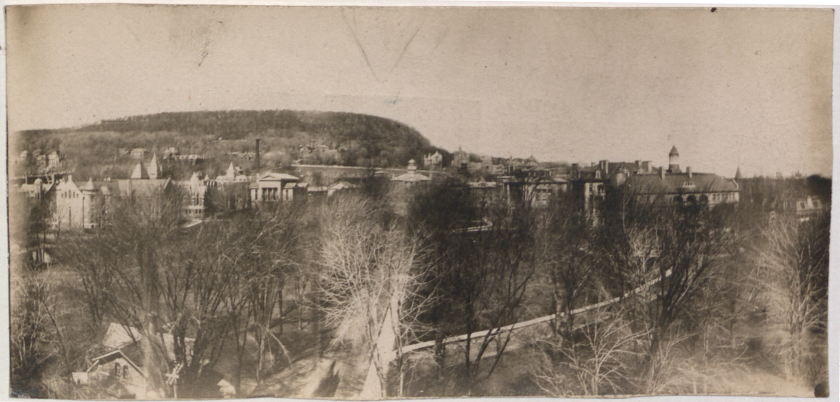 McGill University and Mount Royal, Montreal.